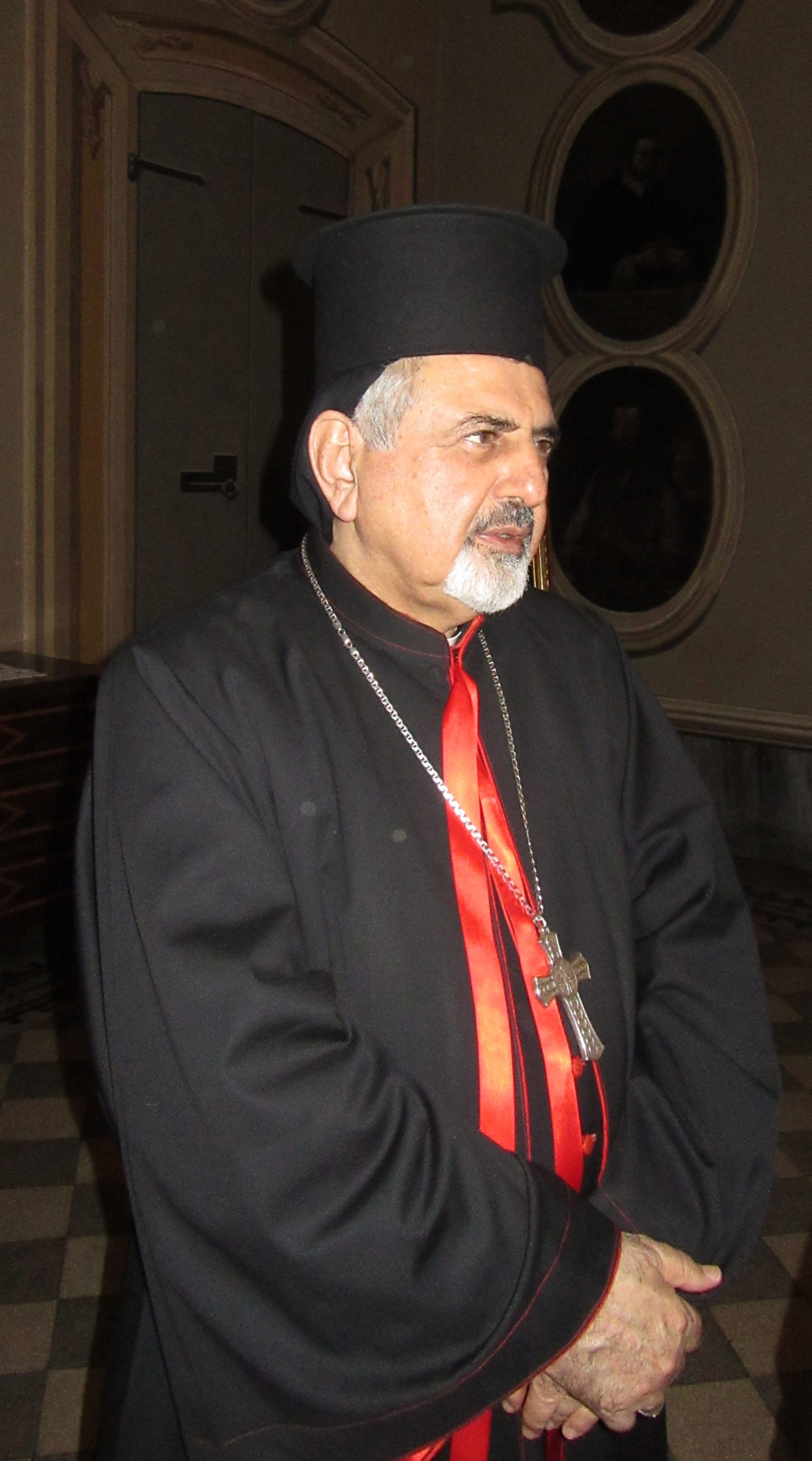 Siriac Patriarch Ignatius Joseph III Yonan